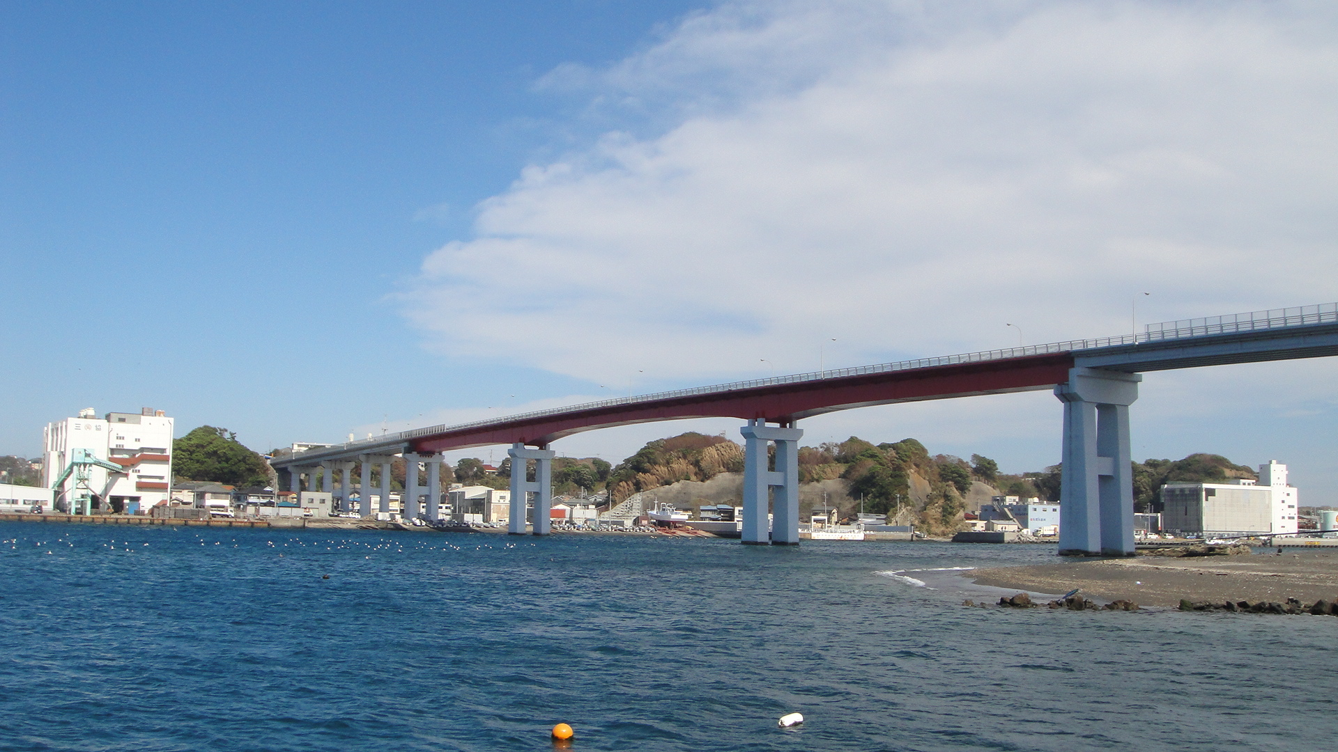 Jōgashima ōhashi bridge in Jōgashima, Kanagawa.